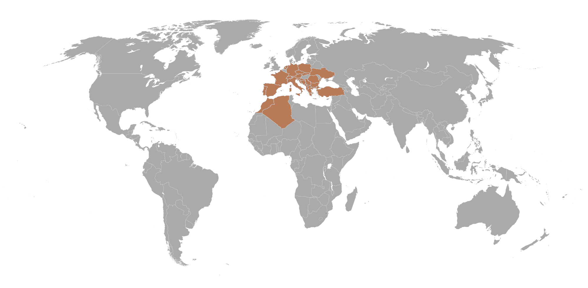 Hipparchia statilinus distribution by country.